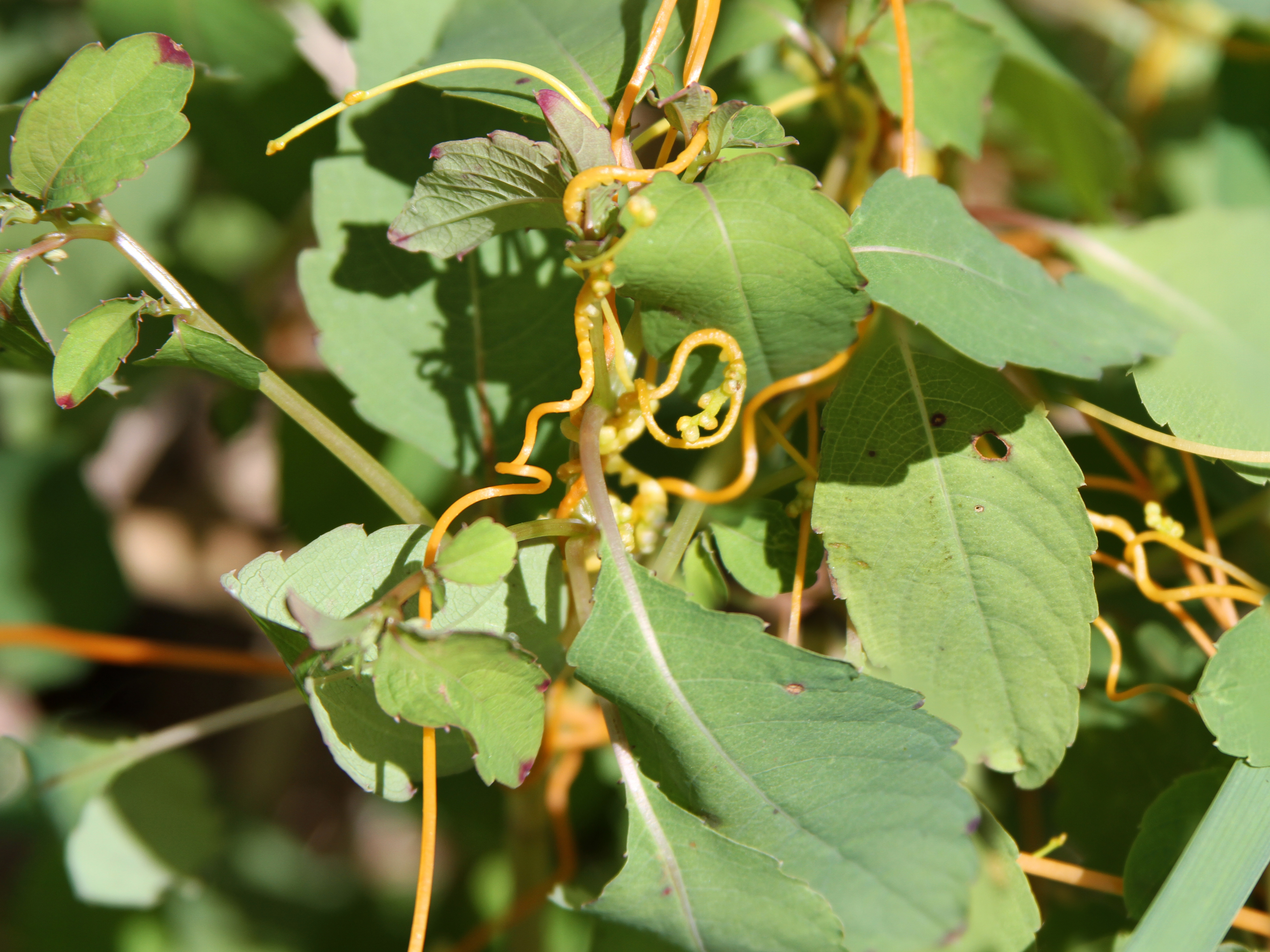 Cuscuta gronovii - scaldweed - at the Skaneateles Conservation Area, Onondaga County, New York, USA